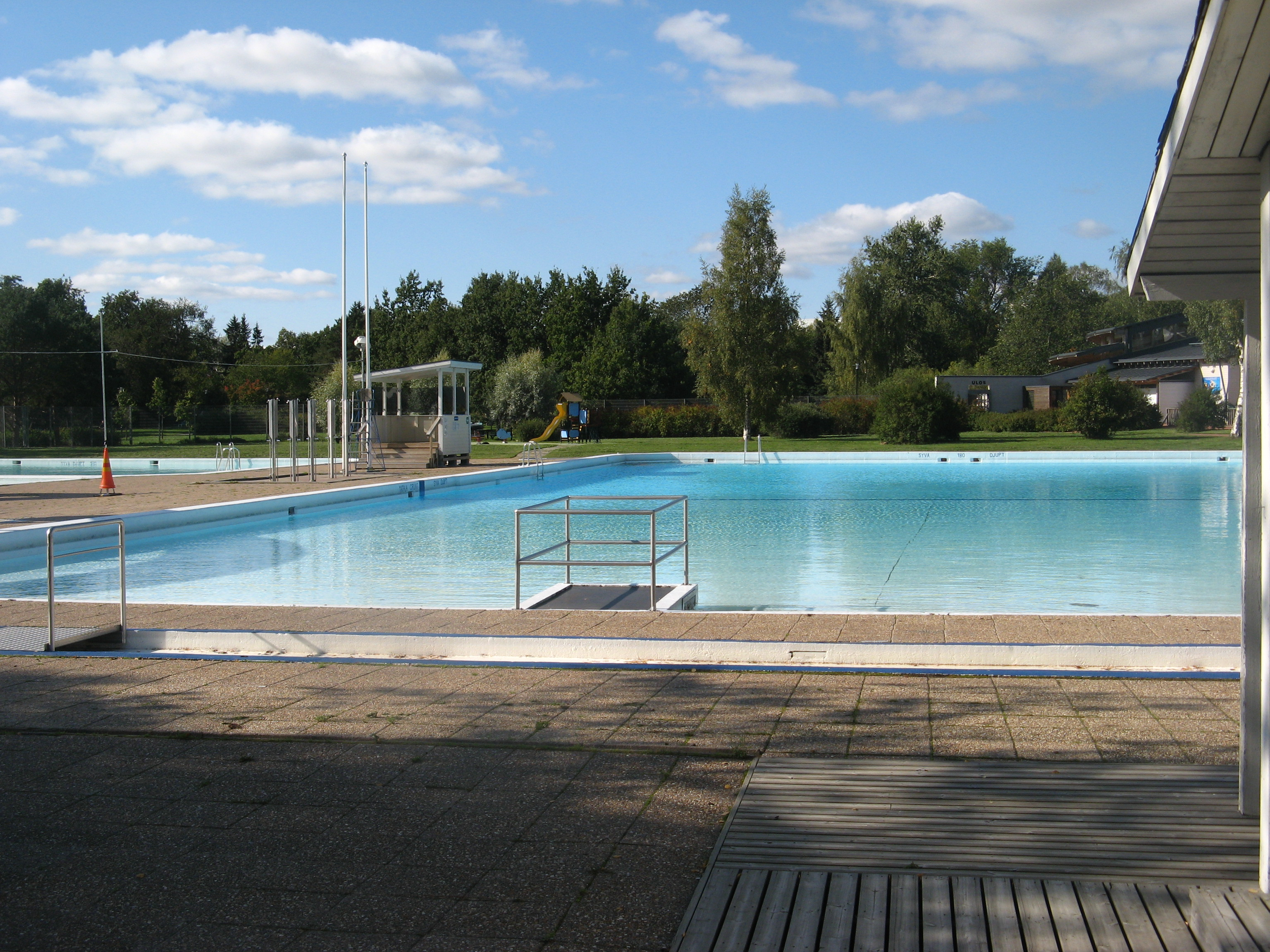 Swimming pool in Kupittaanpuisto park, Turku.